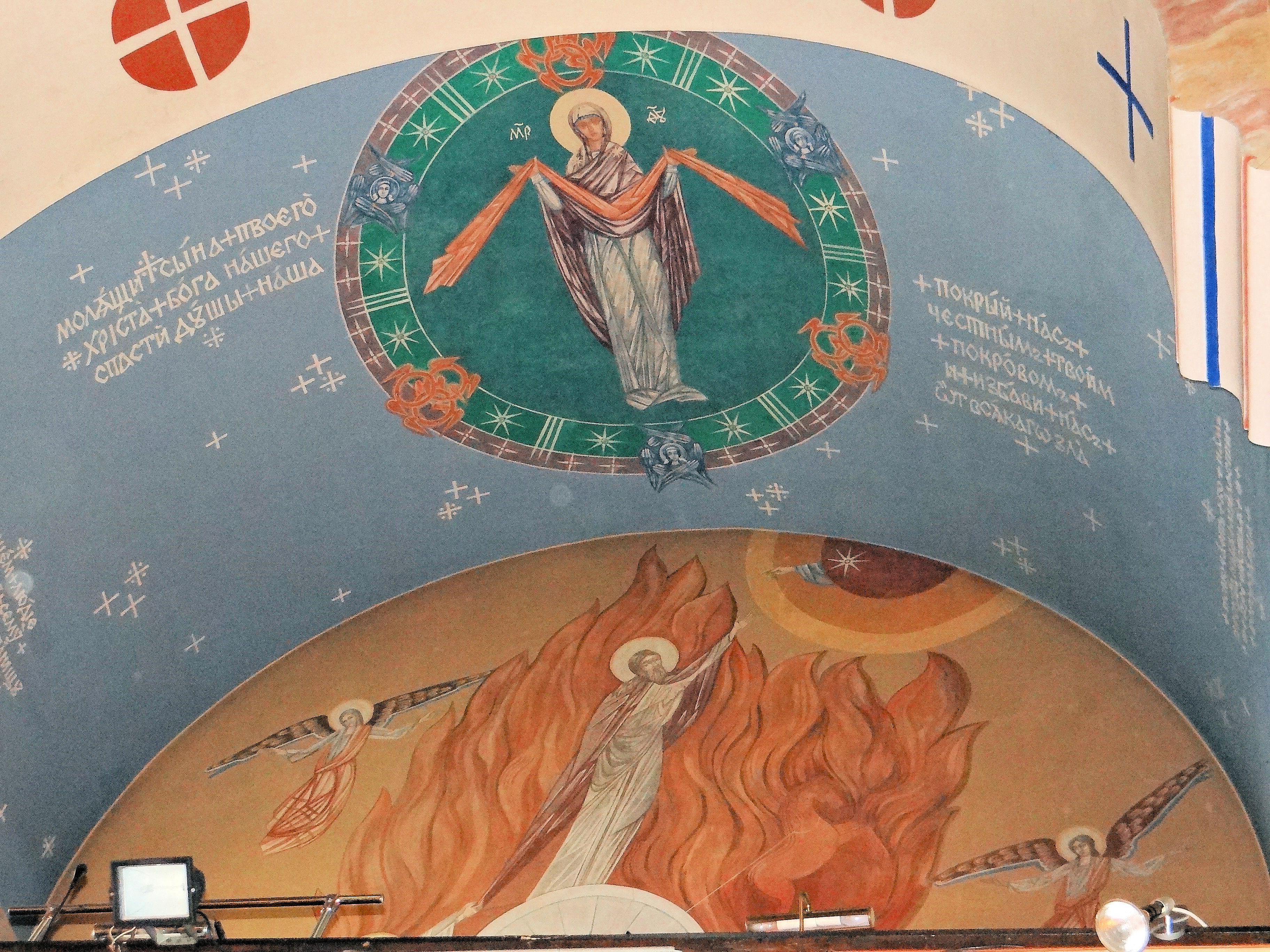 Interior of Orthodox church of St. John Climacus in Warsaw